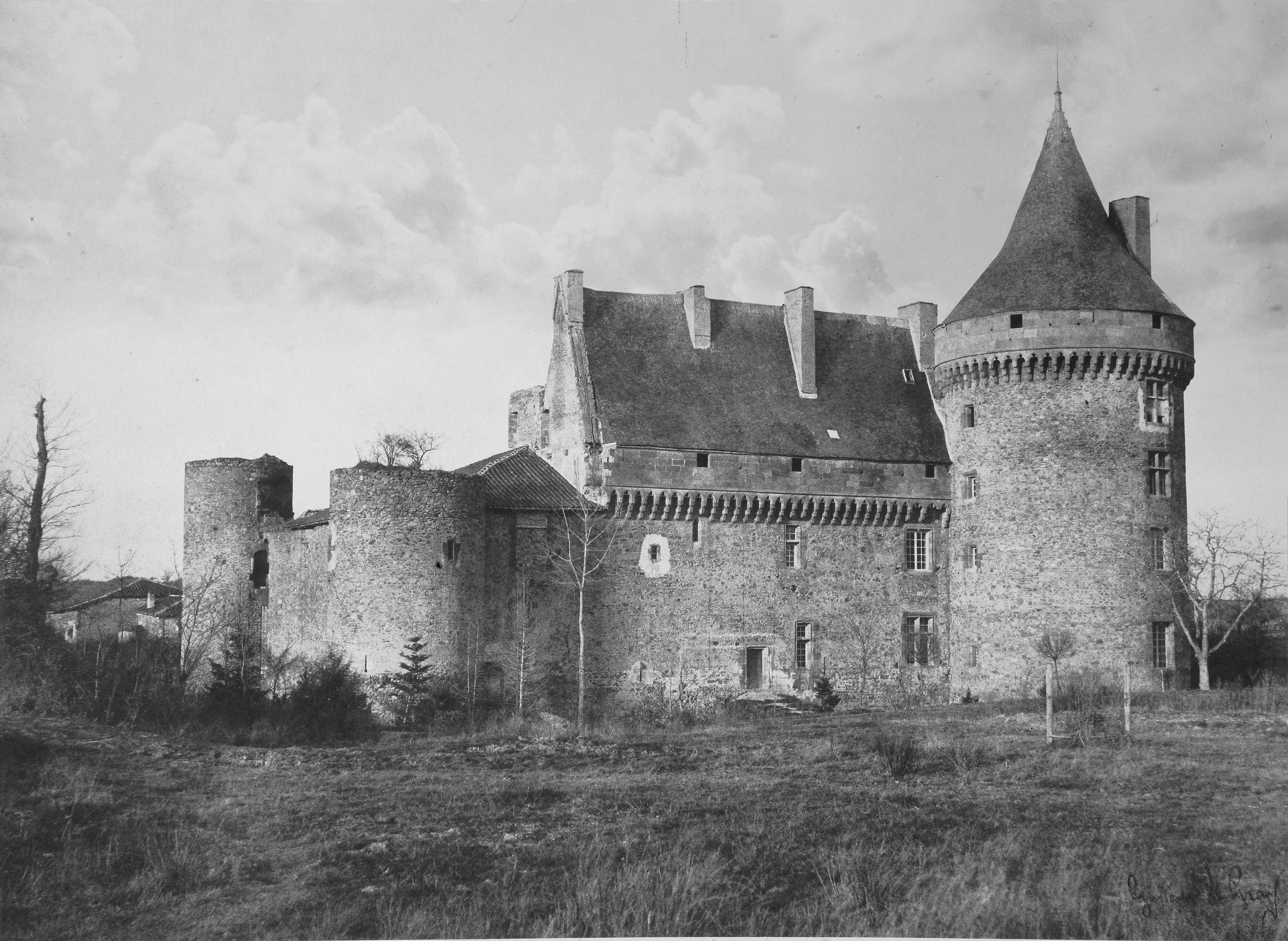 Jacques Cœur’s palace, Dauphiné by Gustave Le Gray. Signed.